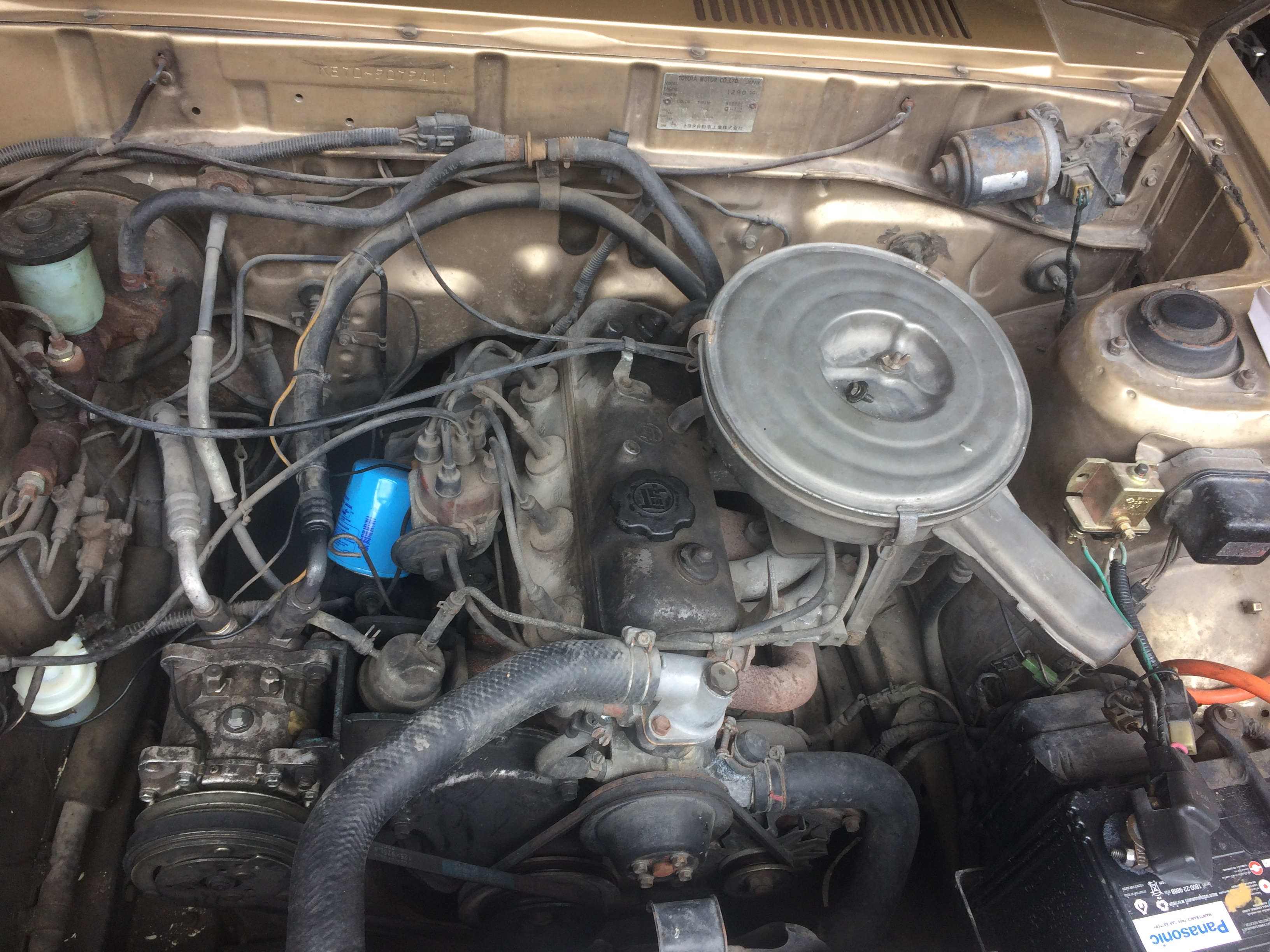 Toyota 4K Engine in Toyota Corolla DX (KE70)